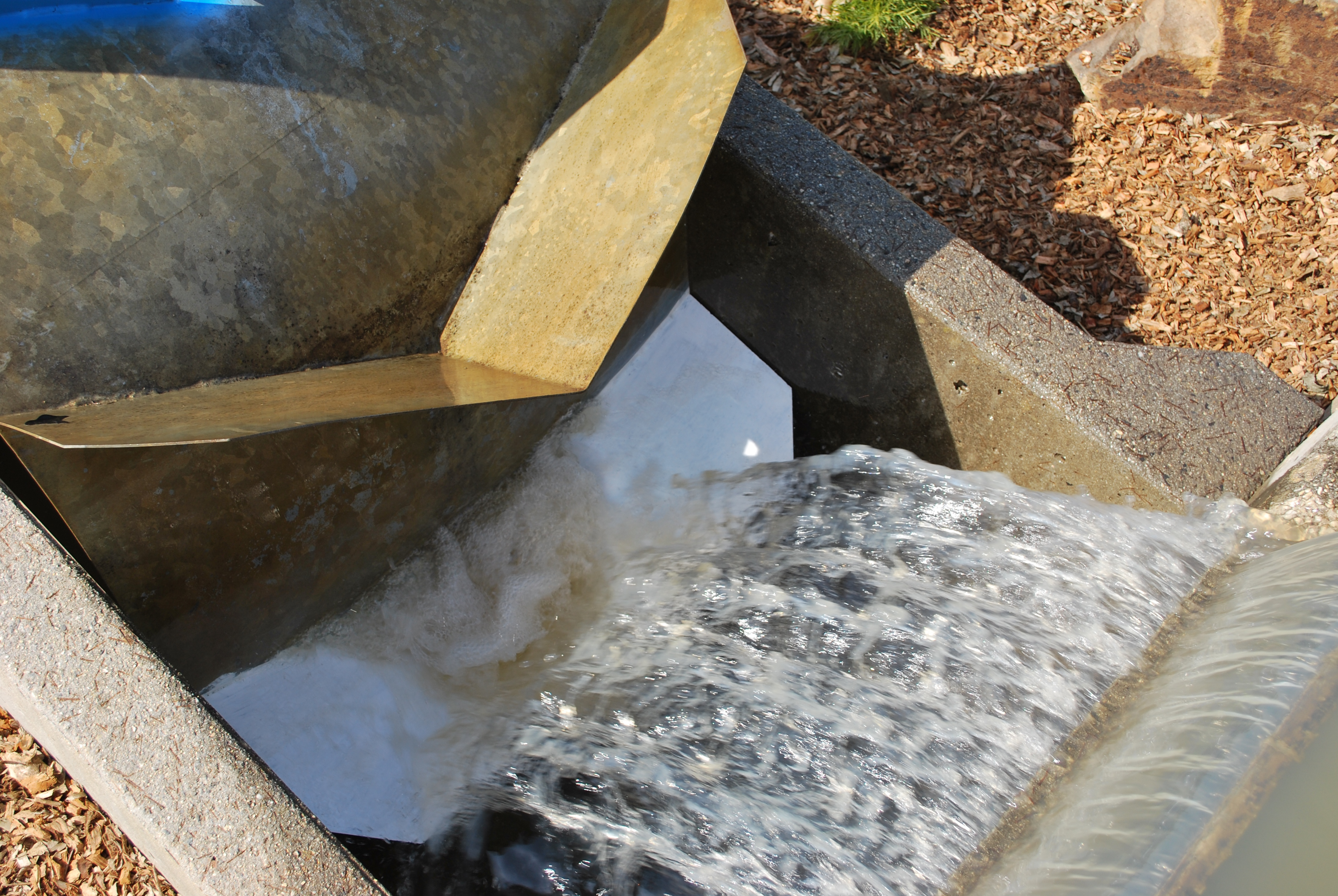 Wheels of Prosperity at Finley, New South Wales